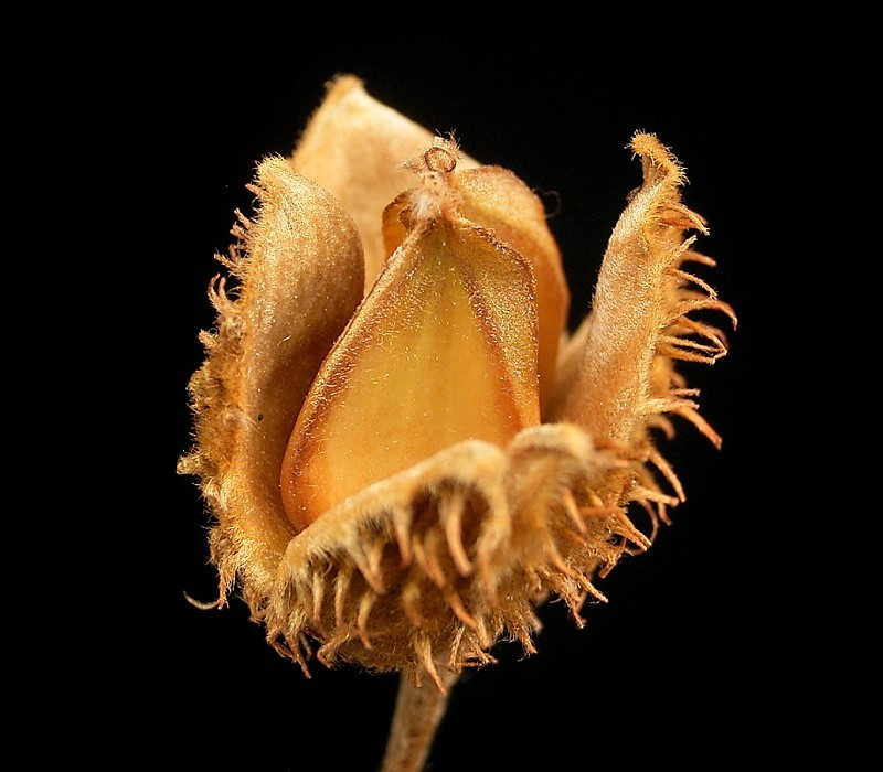 Fagus sylvatica